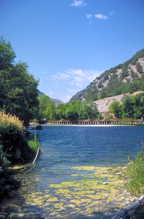 Plant life is abundant both in and around the water at Second Dam, Logan Canyon, Utah, USA. The fishing pier and stairway up to the street-side parking are visible across the lake. Photo credit: Dennis Adams, Federal Highway Administration